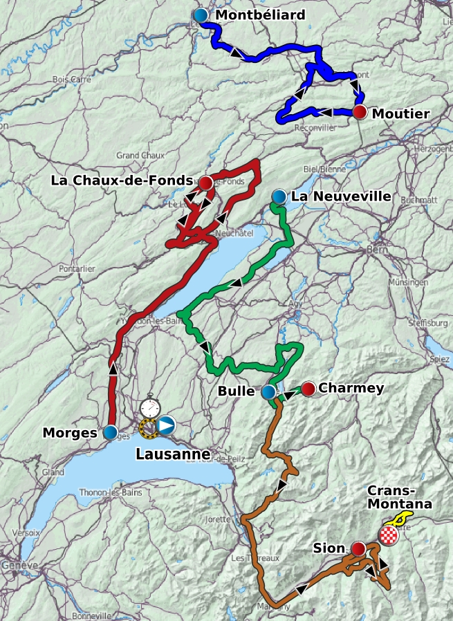 Route of Tour de Romandie 2012